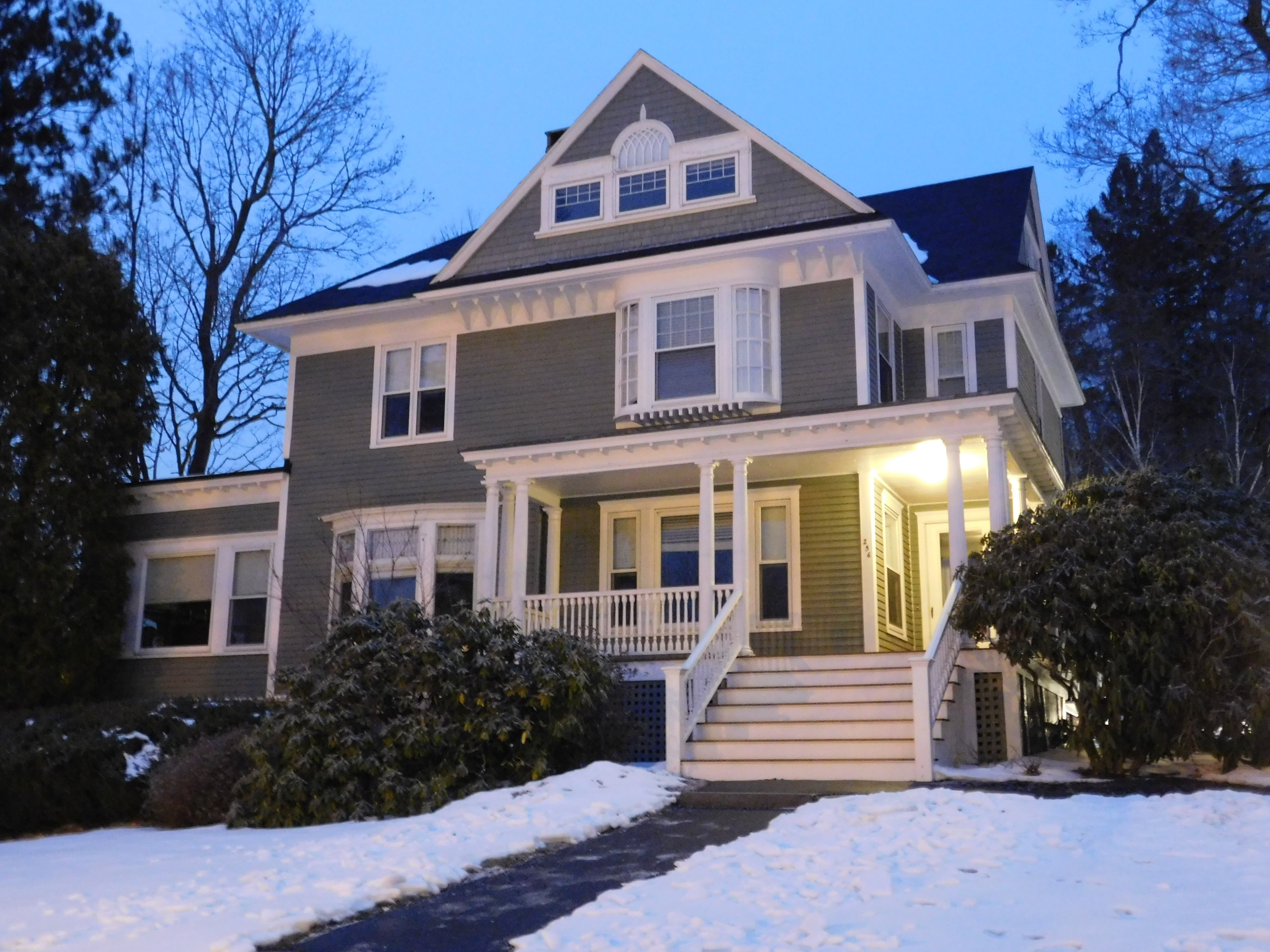 The President of Bates College's official residence